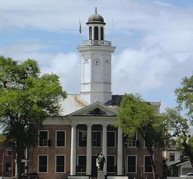 Ministry Department building of Finance in Suriname.